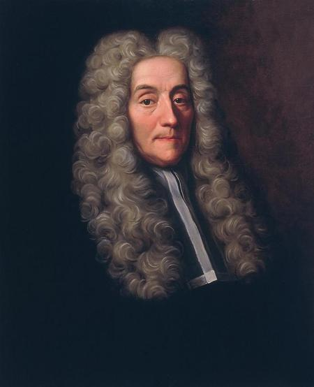 Portrait of Jean-Robert Chouet (1642 – 1731), physicist, rector of the Académie de Genève, and Syndic of the Republic of Geneva. Painted by Robert Gardelle (1682 – 1766), ca. 1715. Oil on canvas. From the collection of the Bibliothèque de Genève.